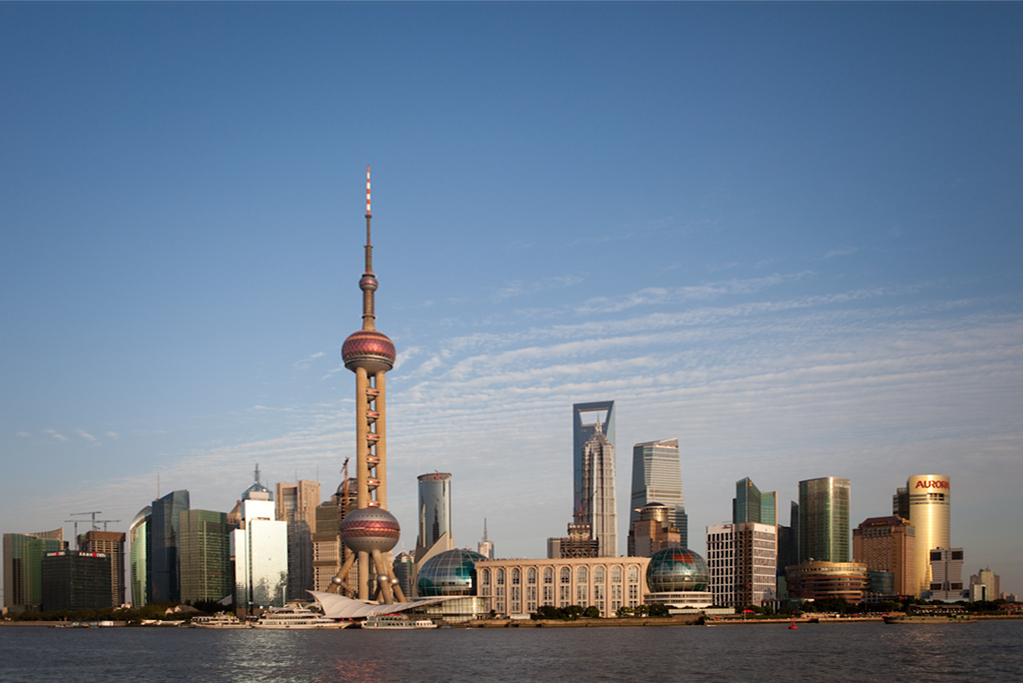 Shanghai's Pudong skyline towers over the Huangpu River